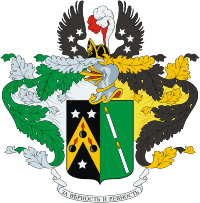 Coat of Arms of Afanasiev family